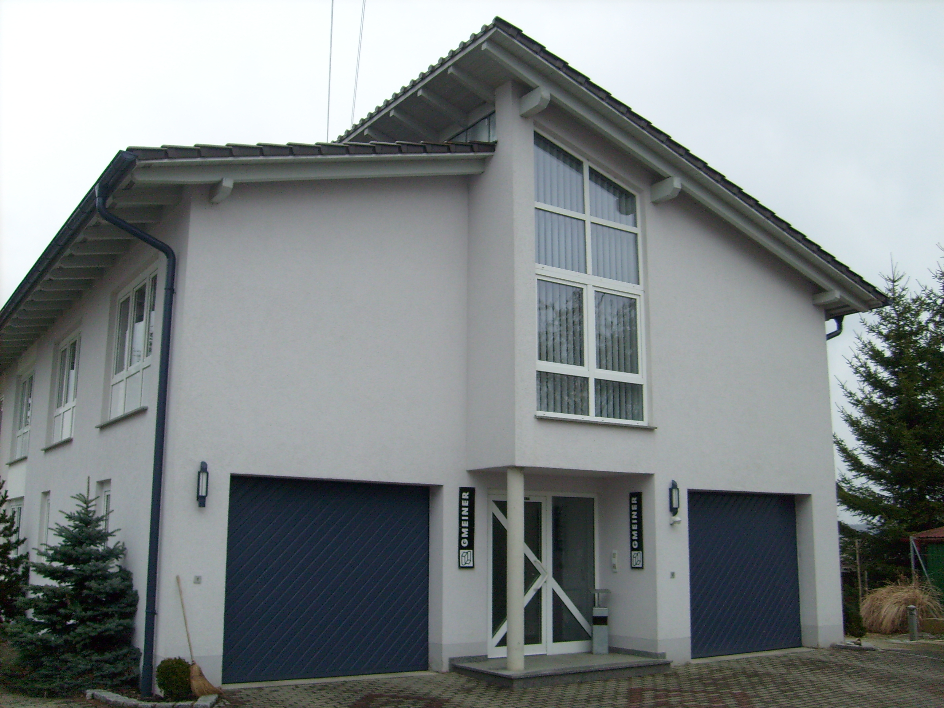 Gmeiner Verlag: publishing house in Meßkirch.